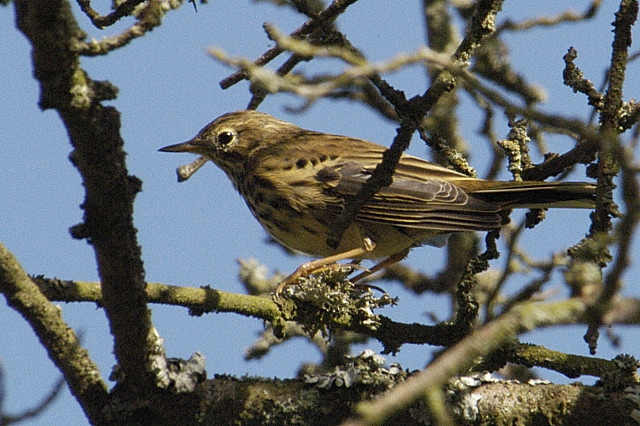 Anthus pratensis from Commanster, Belgian High Ardennes .